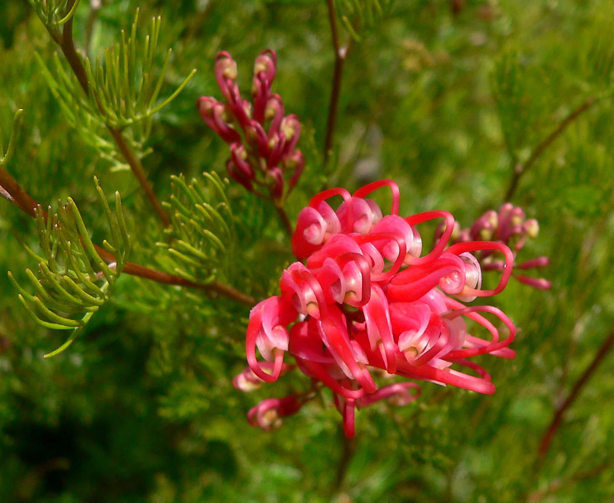 Photo of Grevillea fililoba (labelled Grevillea thelemanniana ssp. filoloba) at the San Francisco Botanical Garden